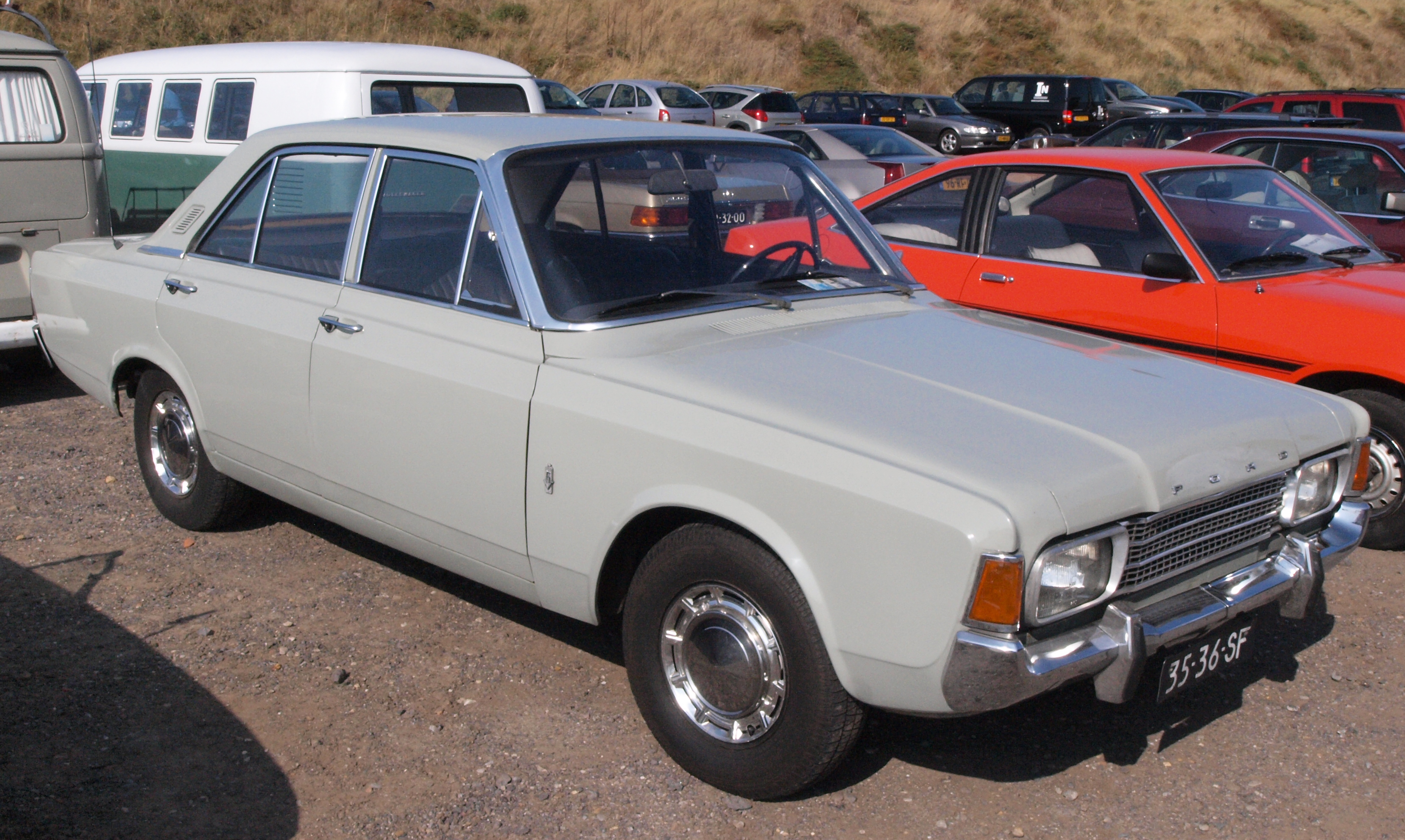 Photographed at the Nationaal Oldtimer Festival Zandvoort 2009, The Netherlands. OLYMPUS DIGITAL CAMERA